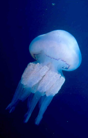 Rhistozoma pulmo. mediterranean jellyfish in mar menor, Cartagena (Spain)